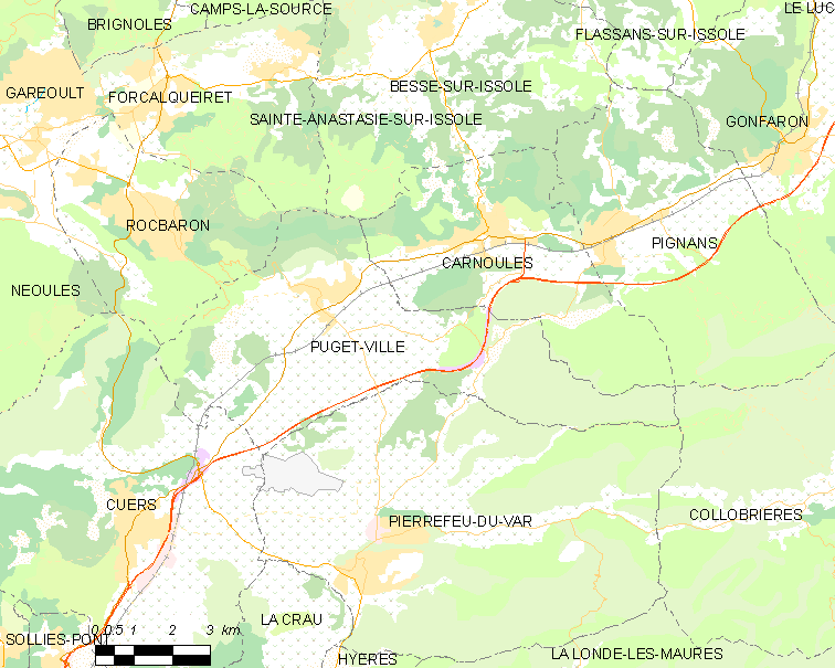 Map of French municipality Puget-Ville